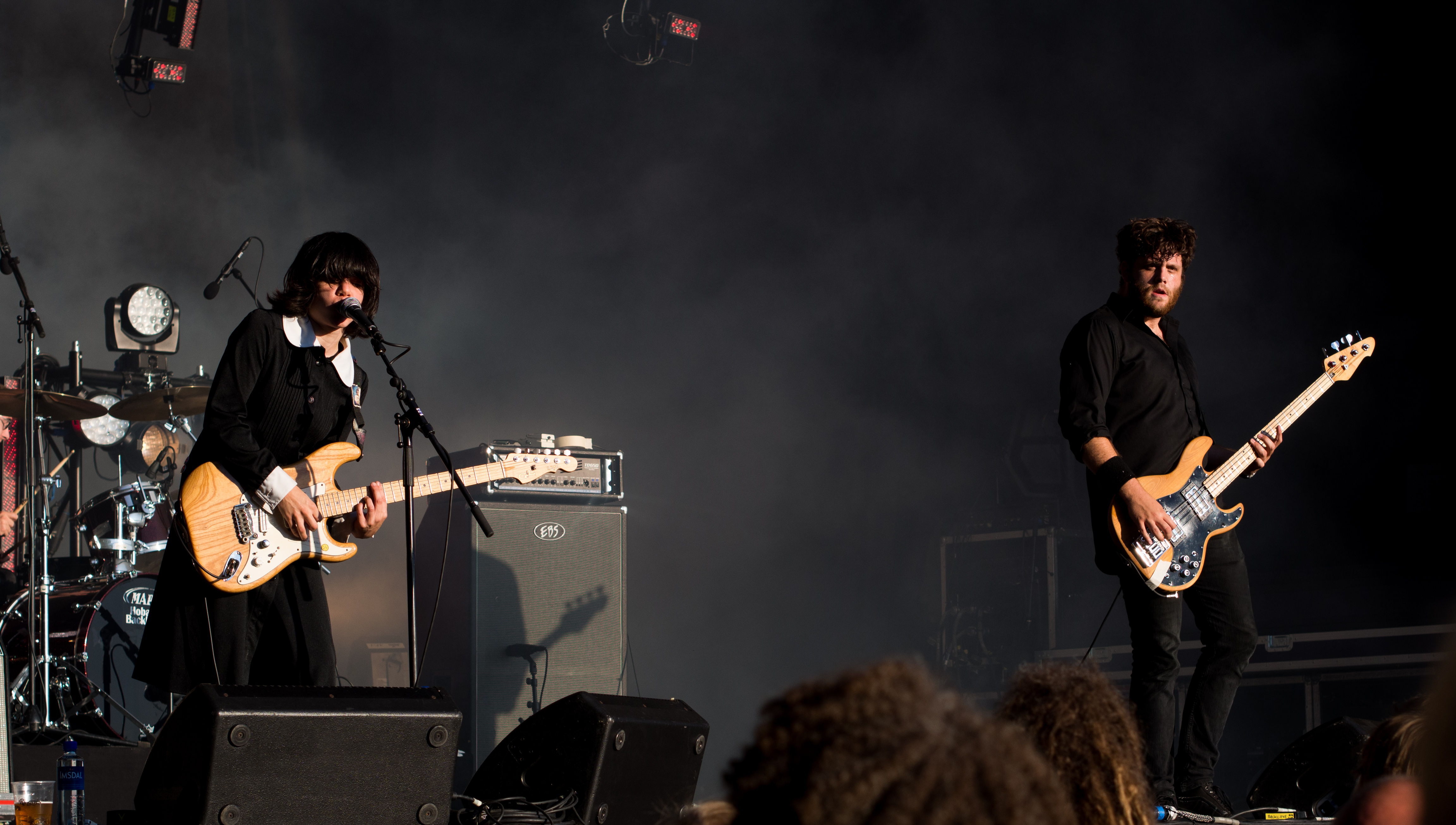 This photo was taken on August 11, 2012 in Gamlebyen, Oslo, Oslo Fylke, Norway